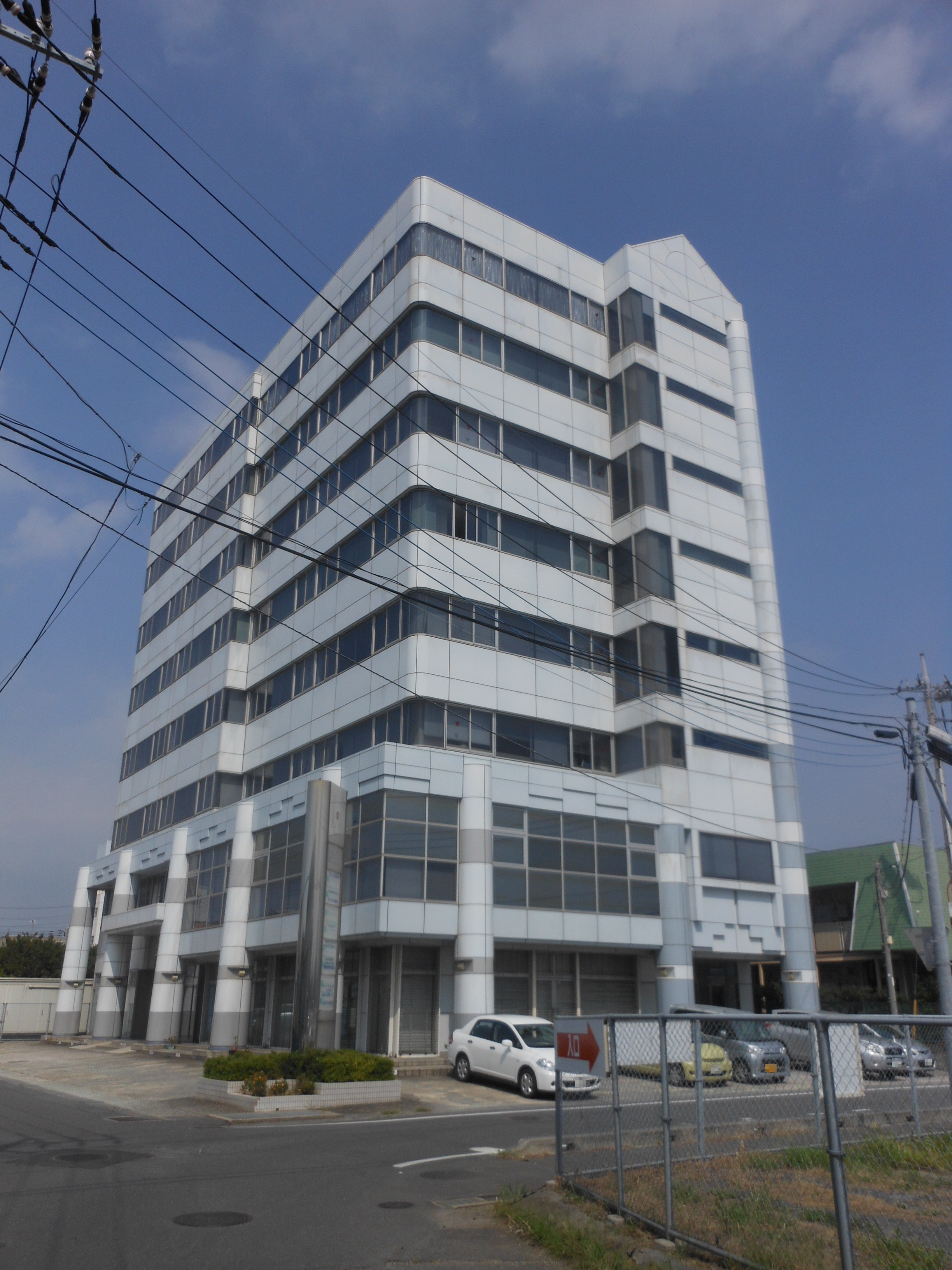 This is the Nobumasu 3rd Building in Tsuchiura, Ibaraki, Japan. This building has the head office of H-NAC CO.,LTD.